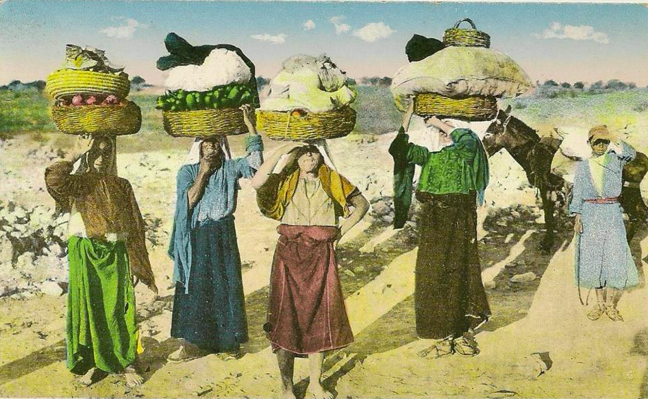 Battir